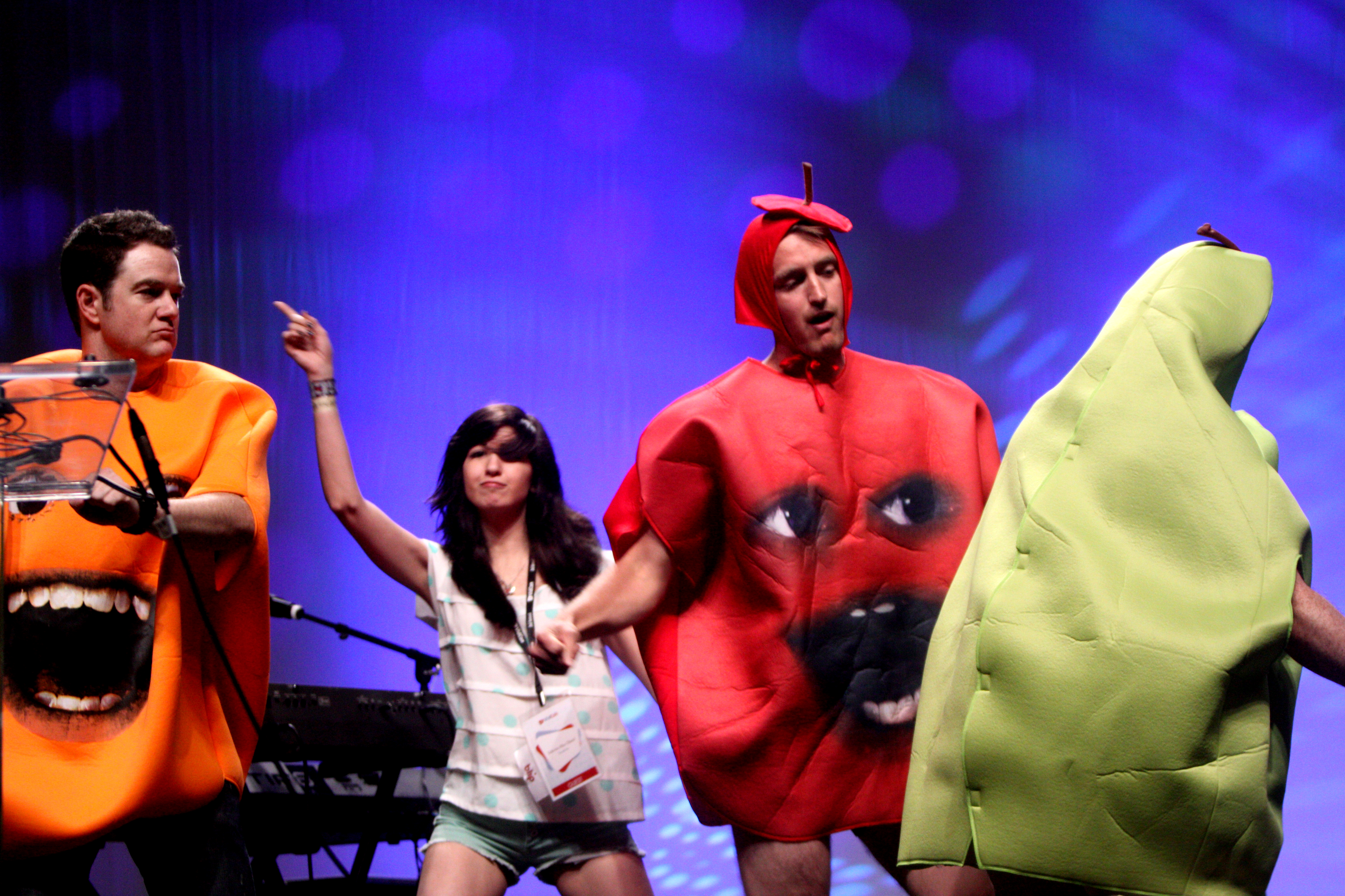 The Annoying Orange cast performing at VidCon 2012 at the Anaheim Convention Center in Anaheim, California.